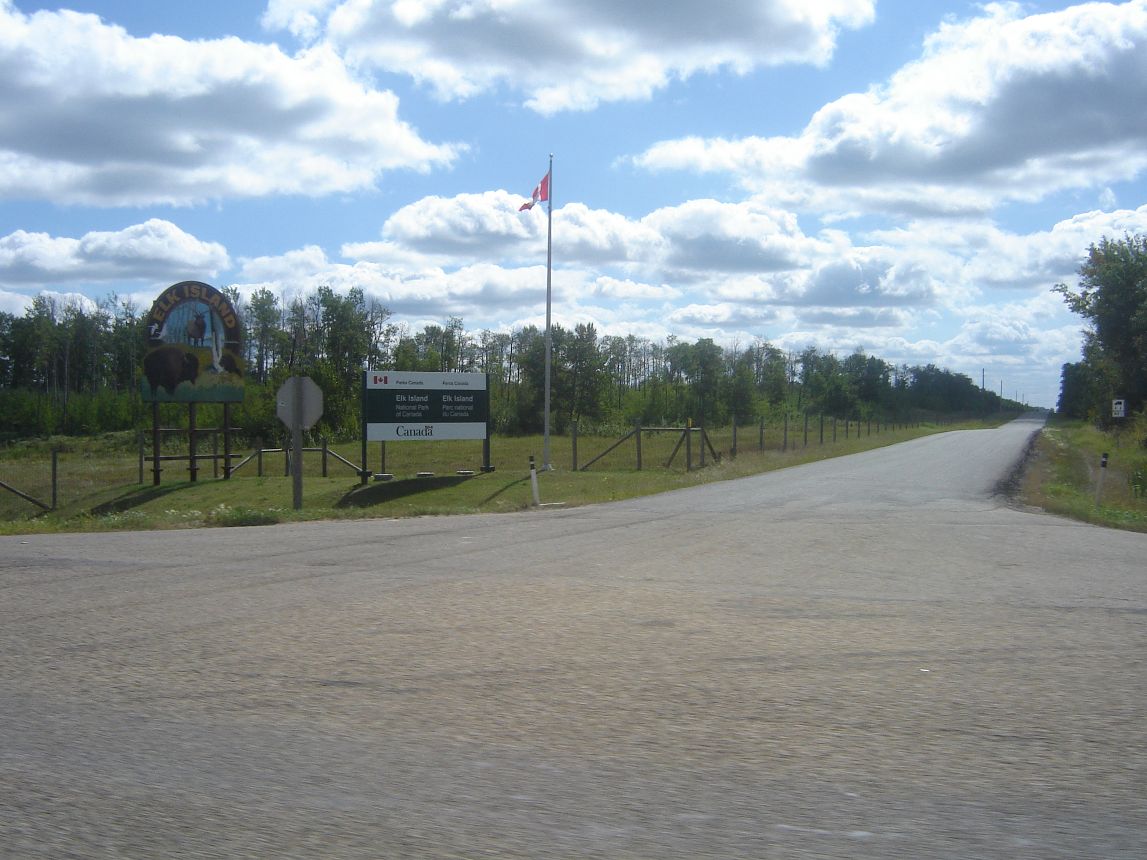 Elk Island National Park east of Edmonton, Alberta